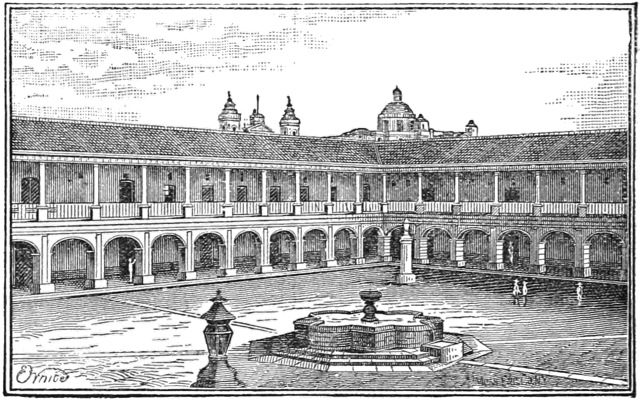 The National Institute, Guatemala